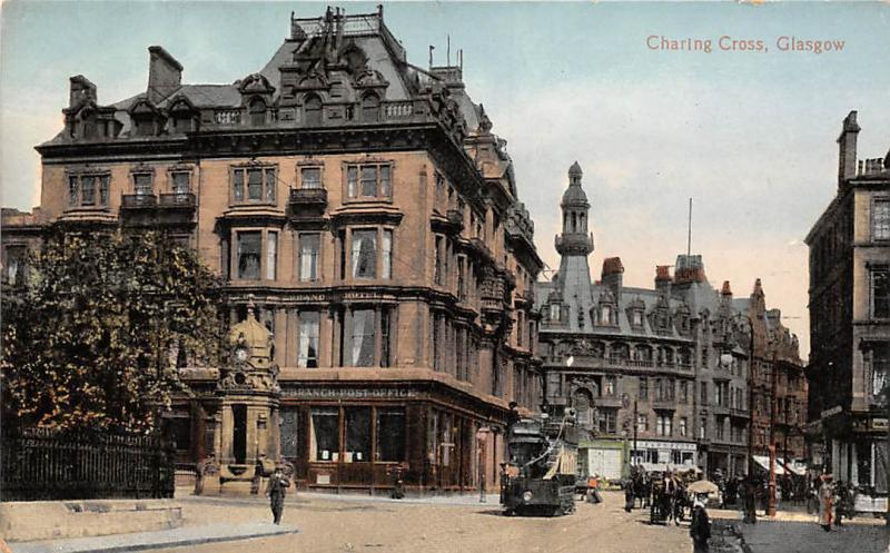 Charing Cross, Glasgow postcard of around 1900 viewing east